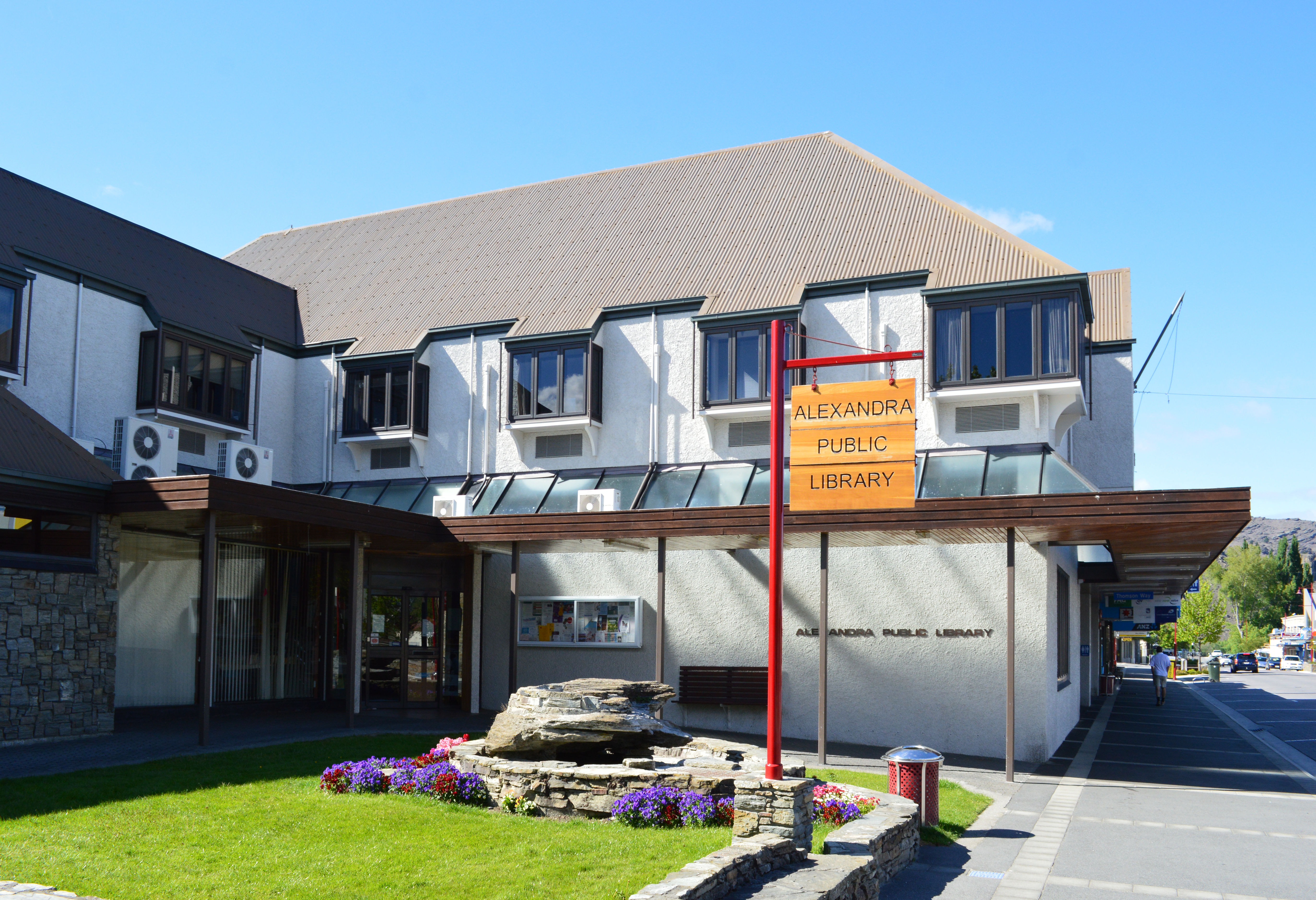 Public library at Alexandra, New Zealand